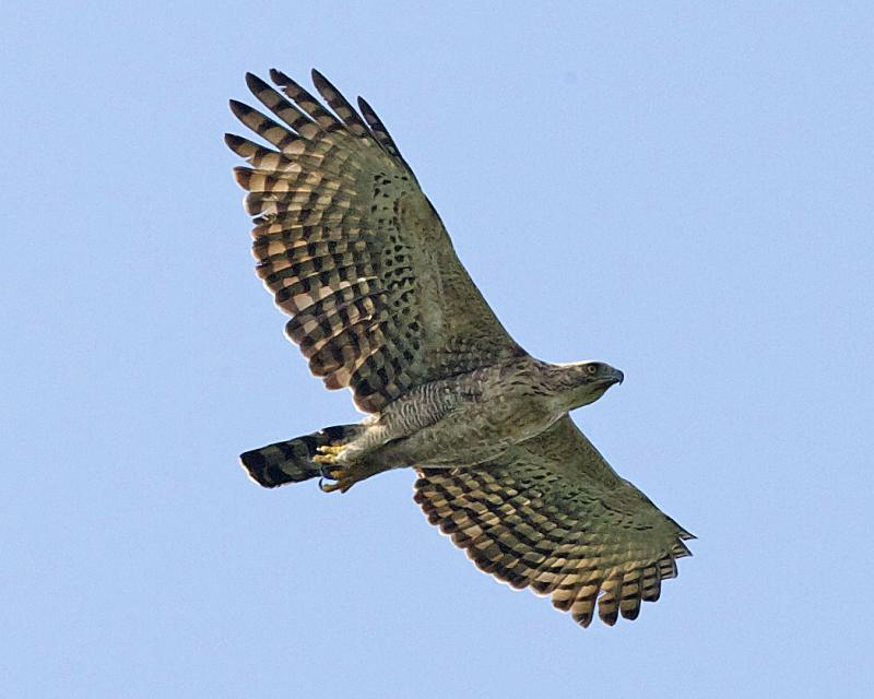 Mountain Hawk-Eagle Spizaetus nipalensis Gunong Raya, Langkawi, Malaysia 19th. October 2010 Distribution: 690V2926